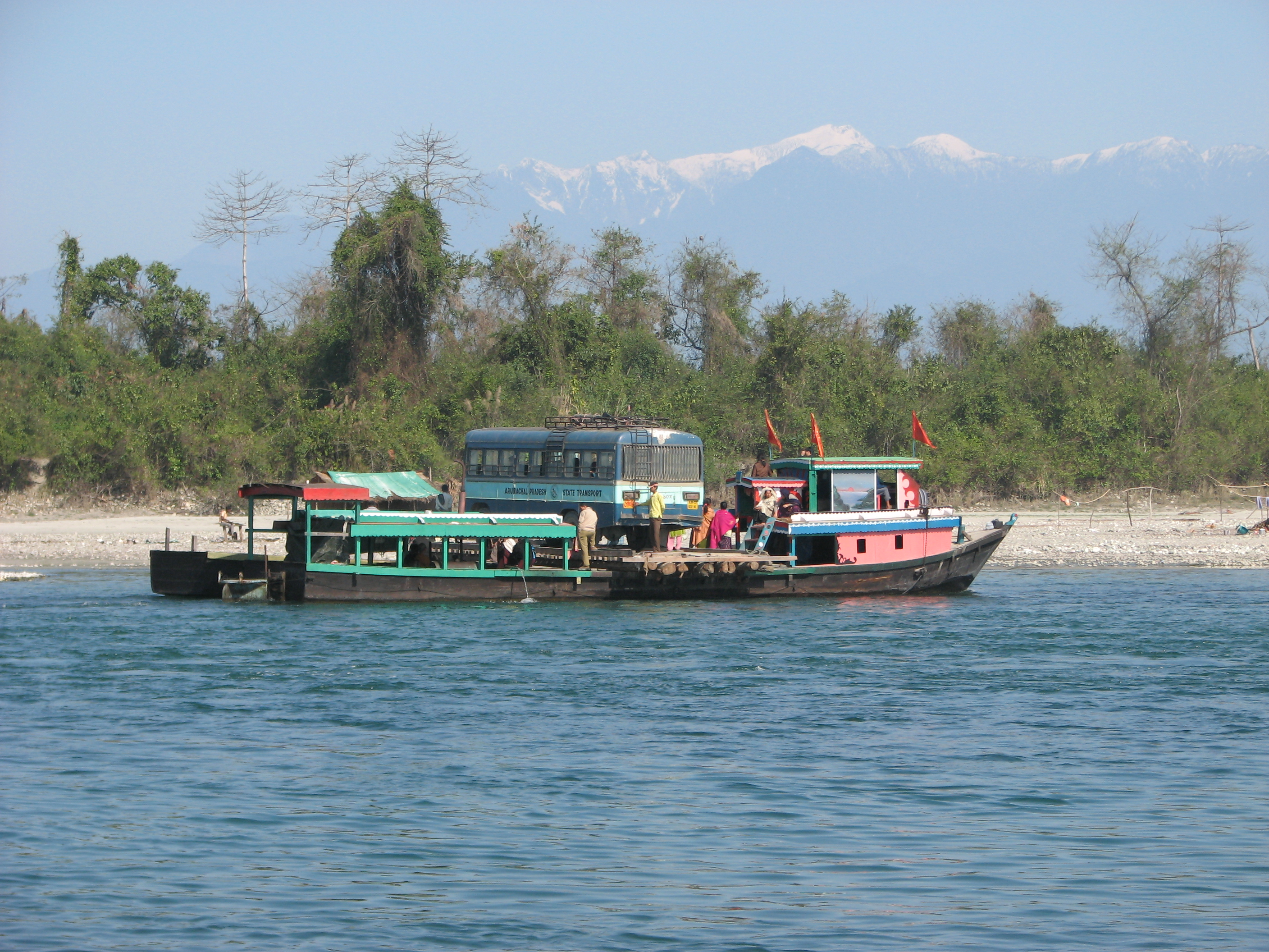 Lohit District, Arunachal Pradesh